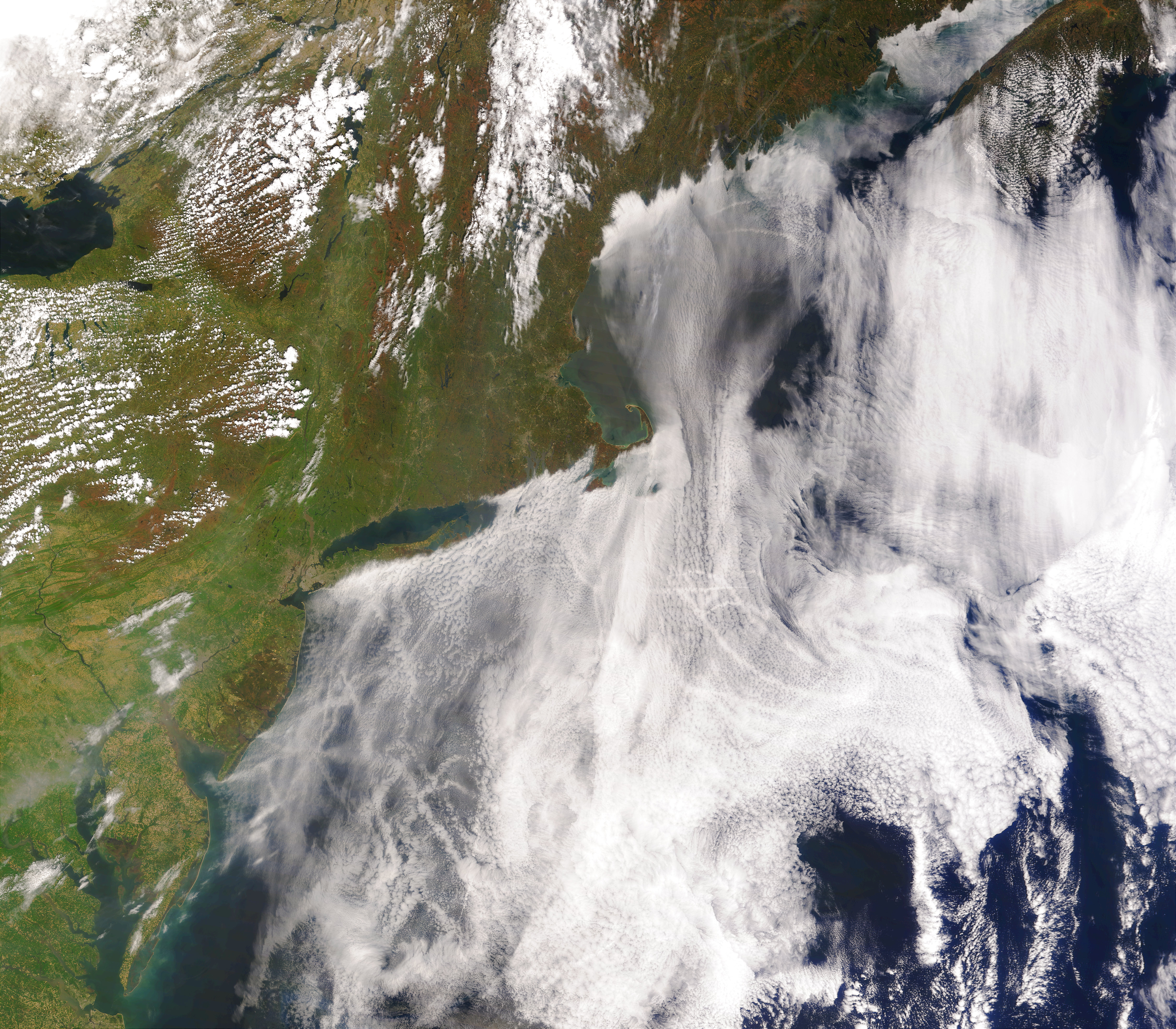 Satellite image of ship tracks, clouds created by the exhaust of ship smokestacks.